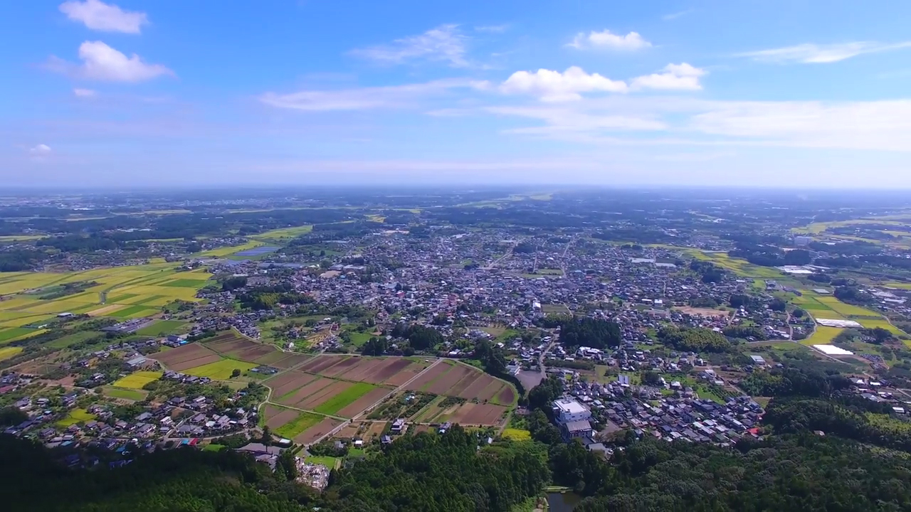 Aerial view of around Iwama Station in Kasama, Ibaraki Prefecture, Japan.